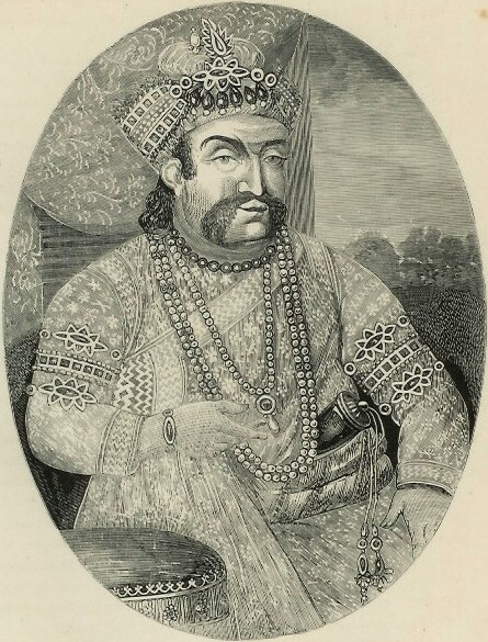 Vajid Ali Shah, an engraving from 1872 (also published in the Illustrated London News, 1857)